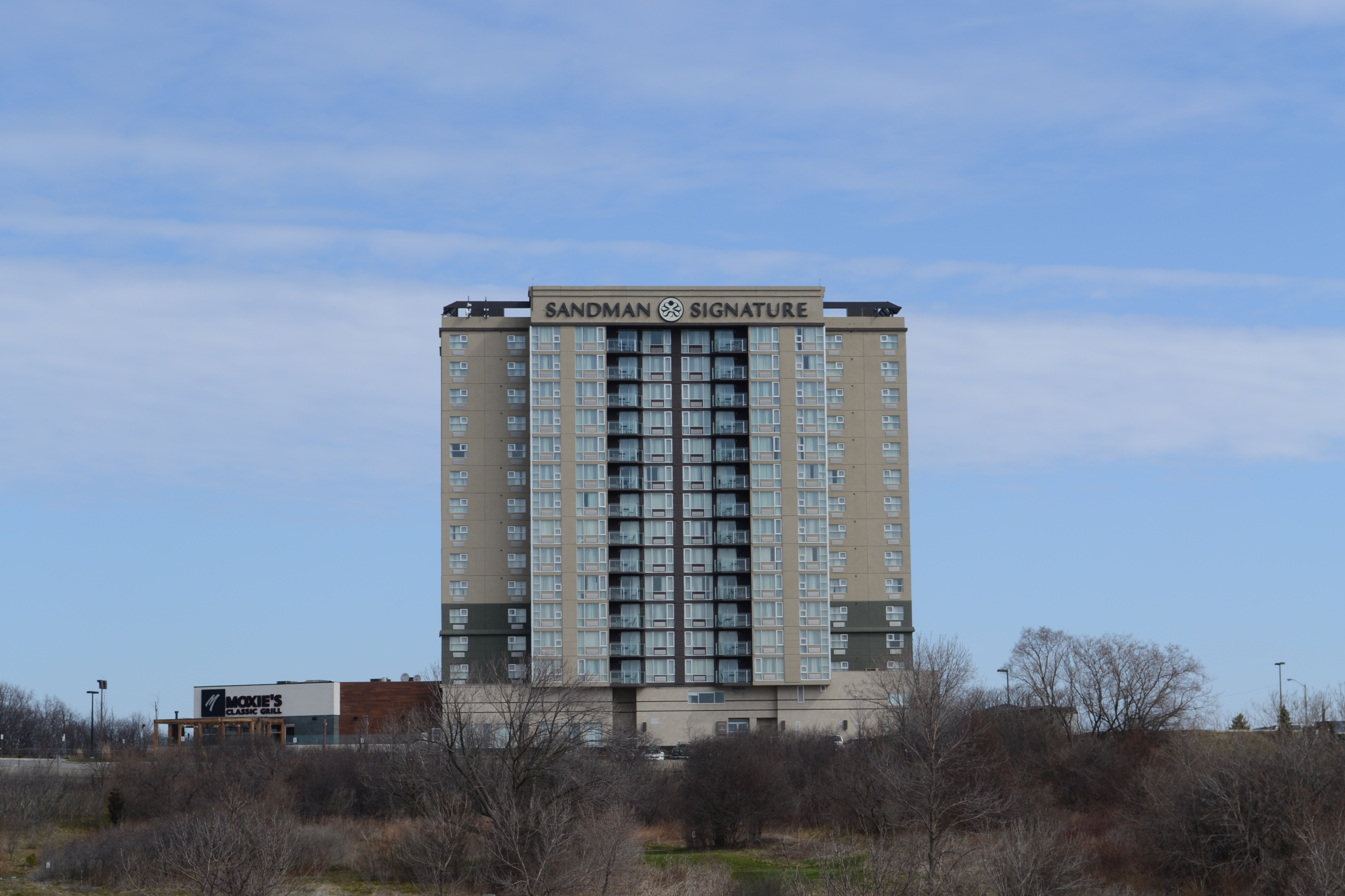 Sandman Signature Hotel, Toronto